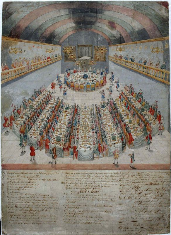 Painting depicting a banquet arranged by Paravicini